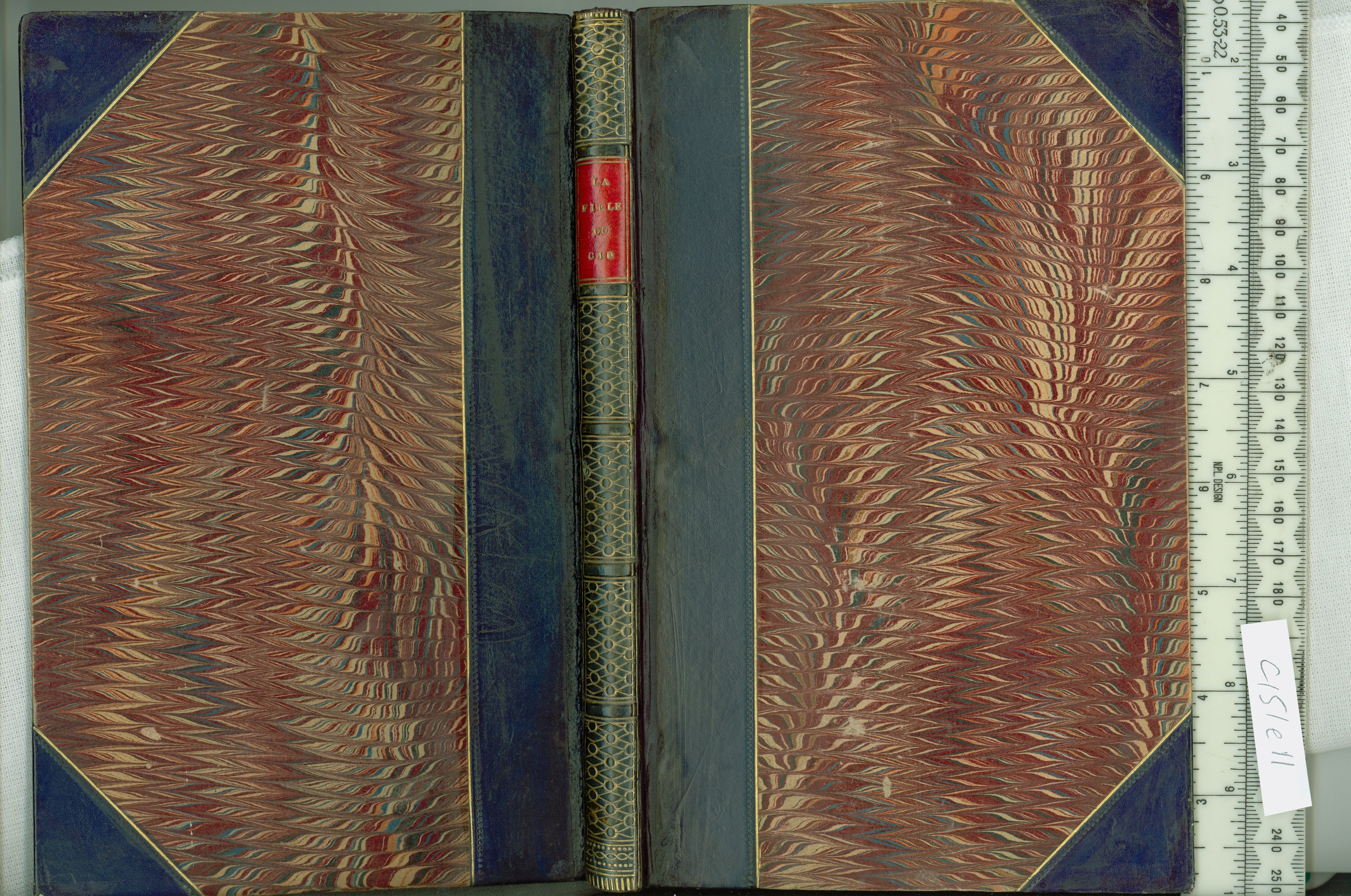 Style: Plain covers tooled spine; Caption: Upper and lower cover and spine; Colour: Blue; Edge: Marbled